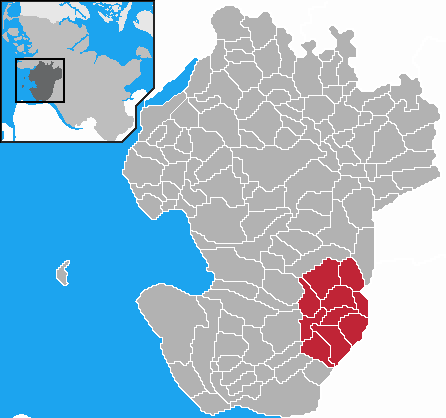 This map shows the area of the Amt Burg-Suederhastedt in the district Dithmarschen, Schleswig-Holstein, Germany.